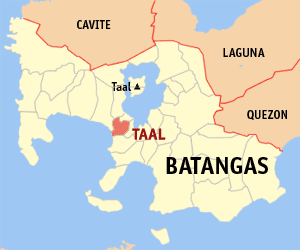 Map of Batangas showing the location of Taal